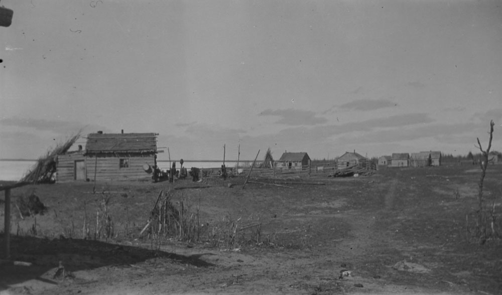 Garson Lake, Saskatchewan in 1918 taken by the Blanchet Survey Expedition.